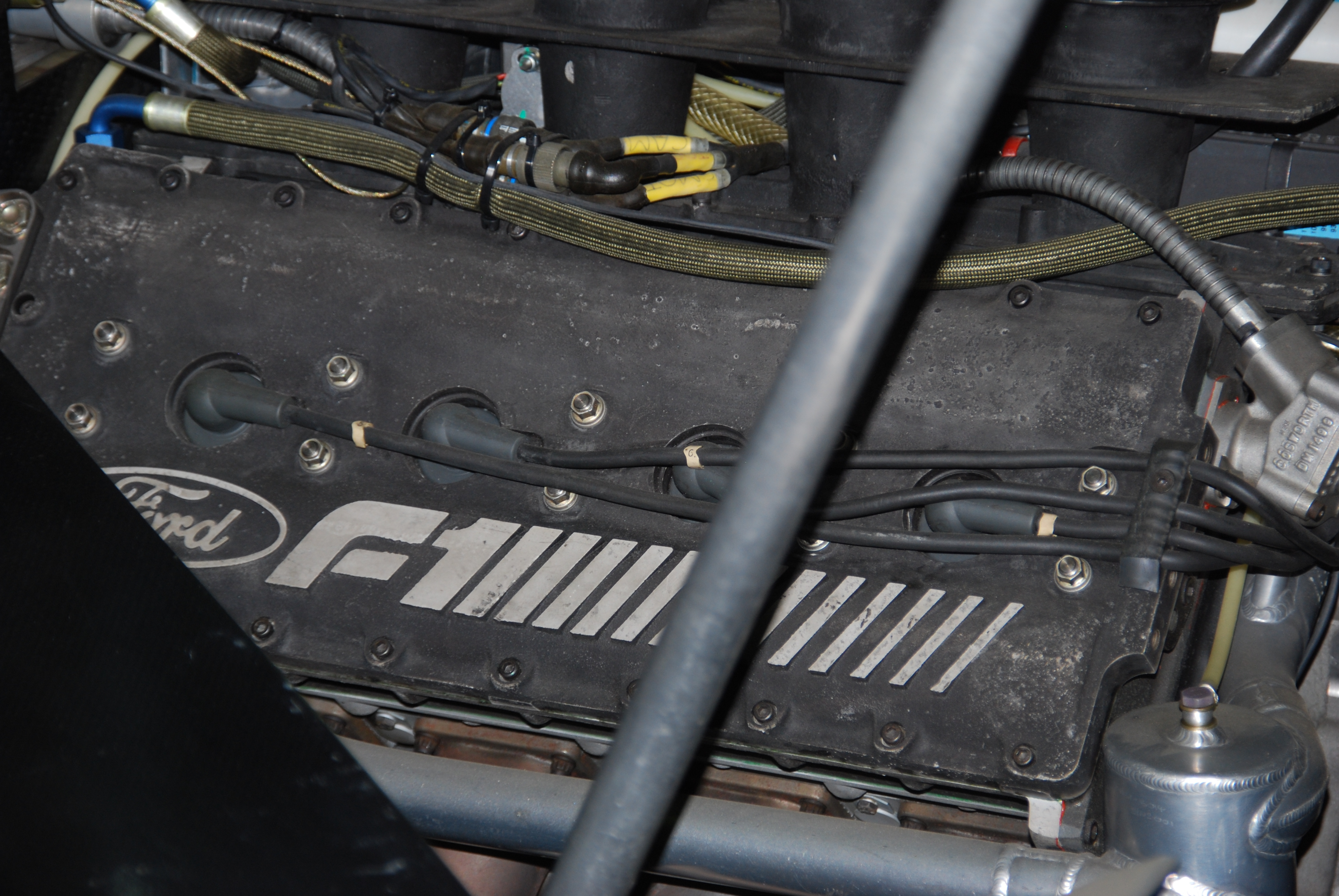 Monteverdi Hai 650 F1; Cosworth Formula 1 Engine